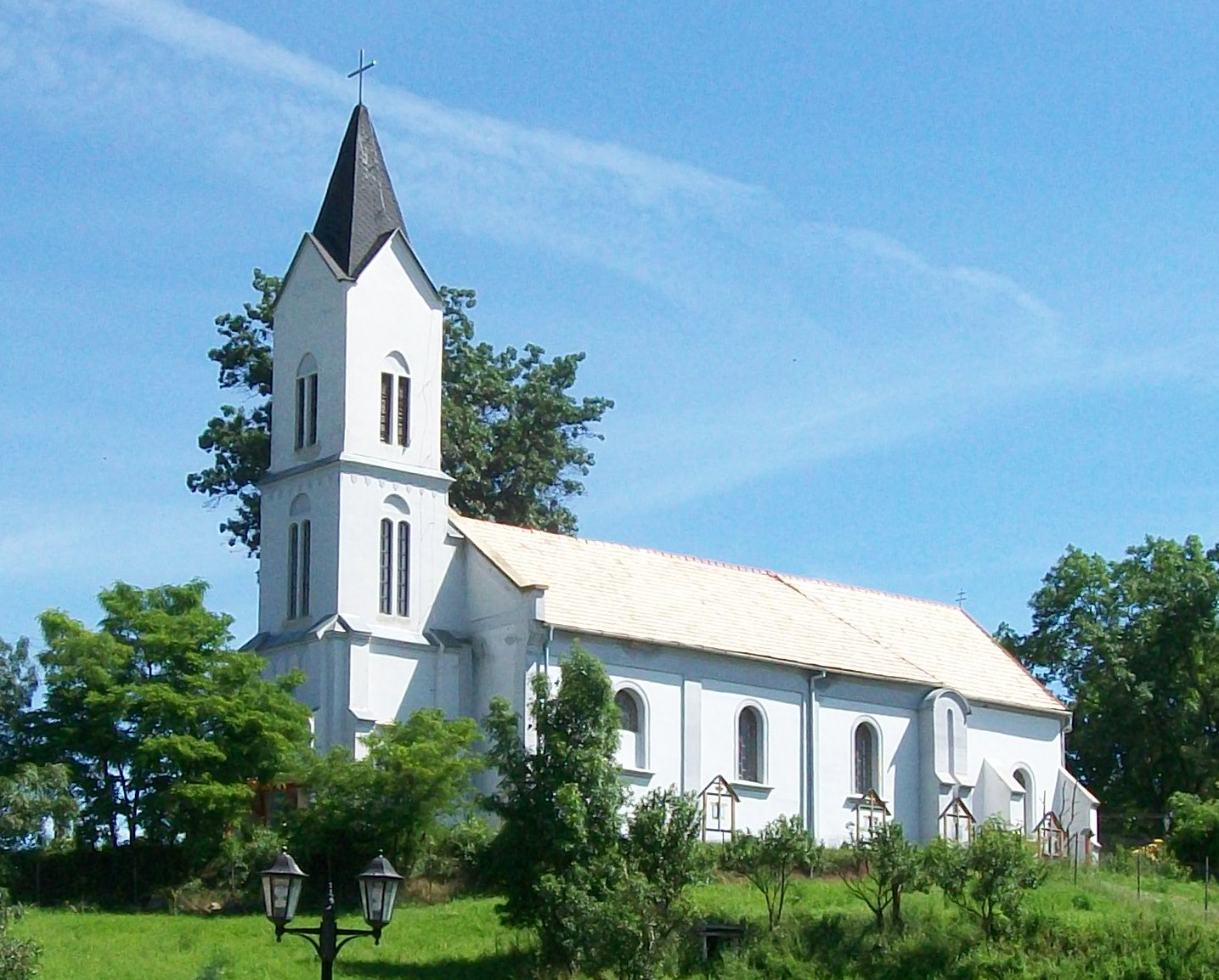 Baroque Catholic church, was built on older foundations in 1768 (monument)